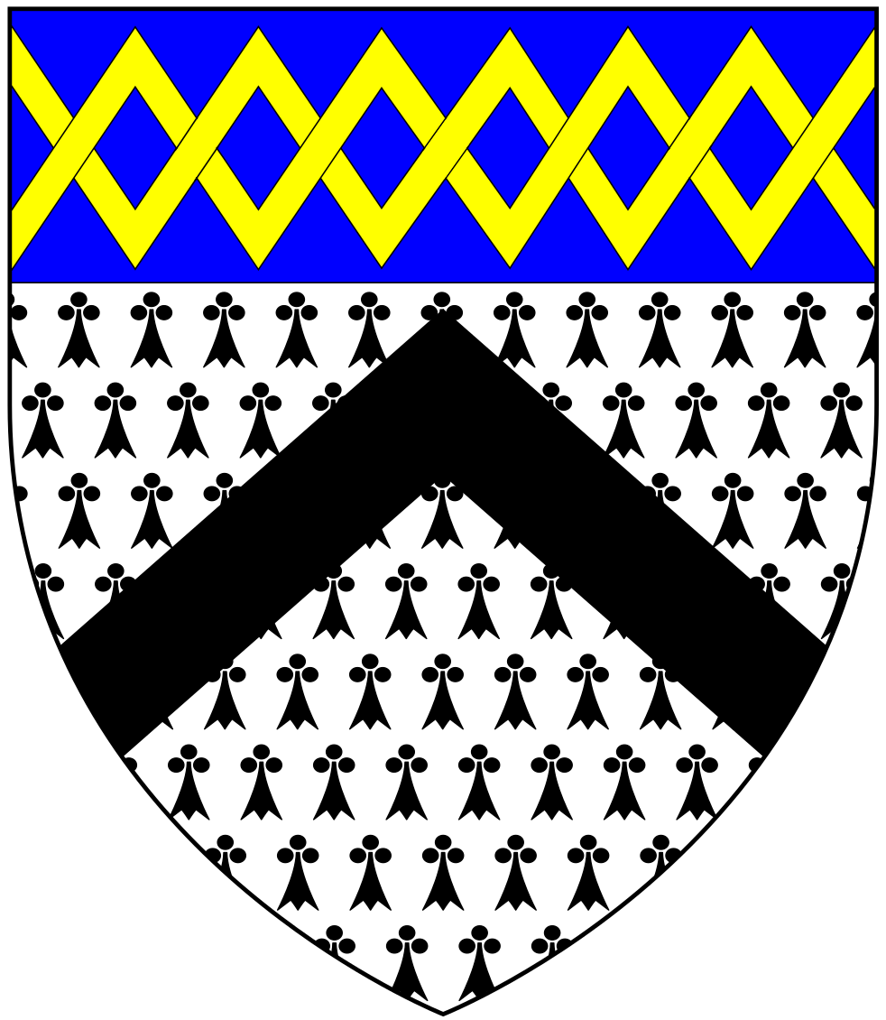 Arms of Prye family of Horwell in the parish of Colebrooke, Devon:Ermine, a chevron sable a chief azure fretty or (per Pole, Sir William (d.1635), Collections Towards a Description of the County of Devon, Sir John-William de la Pole (ed.), London, 1791, p.498). Alternatively: Ermine, a chevron gules a chief azure fretty or (per Vivian, (Ed.) The Visitation of the County of Devon: Comprising the Heralds' Visitations of 1531, 1564 & 1620, Exeter, 1895, p.631, pedigree of Prye of Horwell). These arms are visible on the monument to John Wrey (d.1597) in Tawstock Church, Devon. John Wrey's son Edmond Wrey married Katherine Prye, daughter of Roger Prye of Horwell (Vivian, p.631)